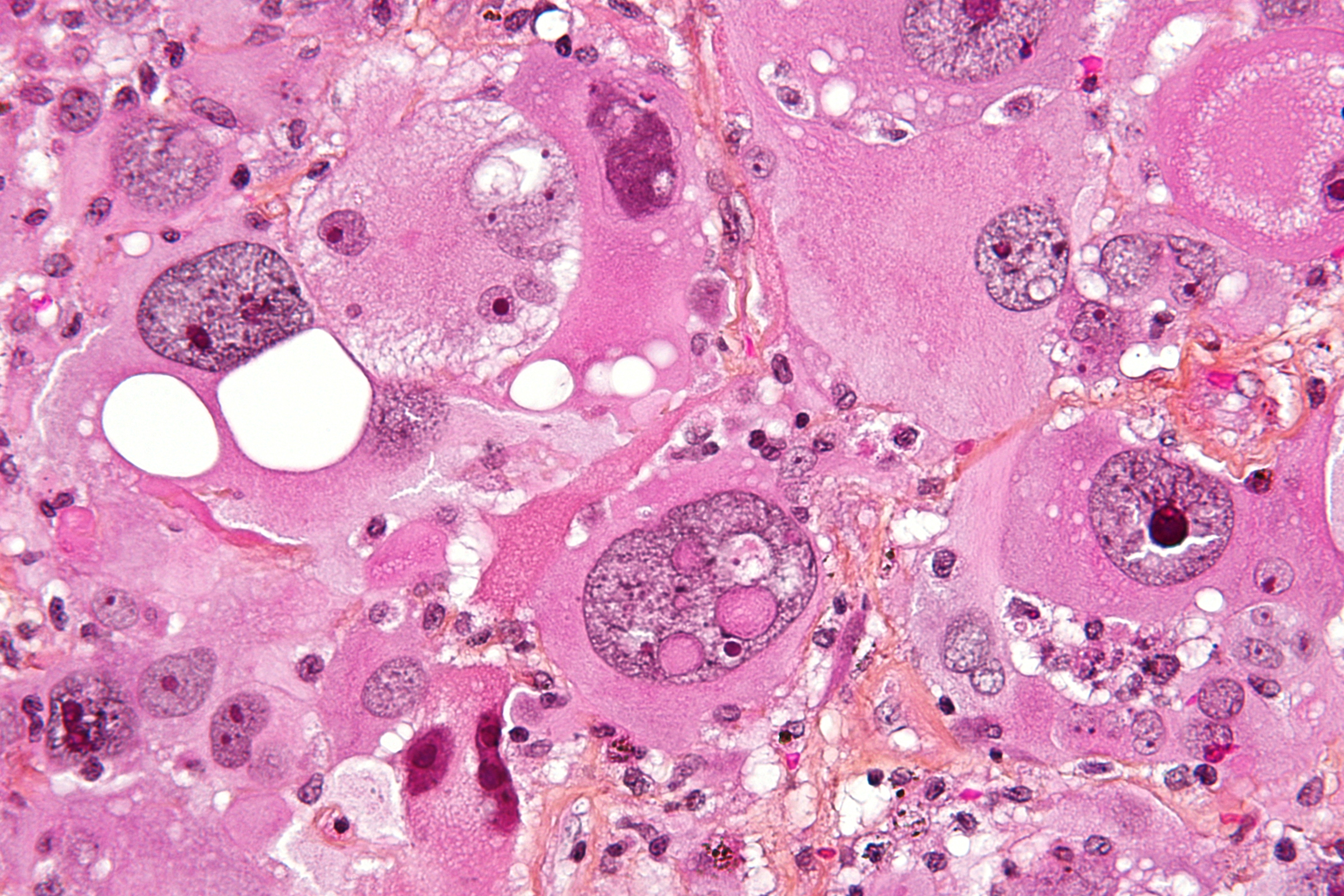 Very high magnification micrograph showing extremely profound nuclear enlargement in a glioblastoma. HPS stain. The nuclear enlargement (meganucleus) and atypia seen in these images is hard to surpass. It is very uncommon. Glioblastoma is one of the deadliest tumours known. The median survival is measured in months[1] and only about 5% can expect to survive more than three years.[2] Related images High mag. Very high mag. References ↑ "A review of the treatment and survival rates of 138 patients with glioblastoma multiforme.". W V Med J 92 (4): 186-90. ↑ (Oct 2007). "Long-term survival with glioblastoma multiforme.". Brain 130 (Pt 10): 2596-606.